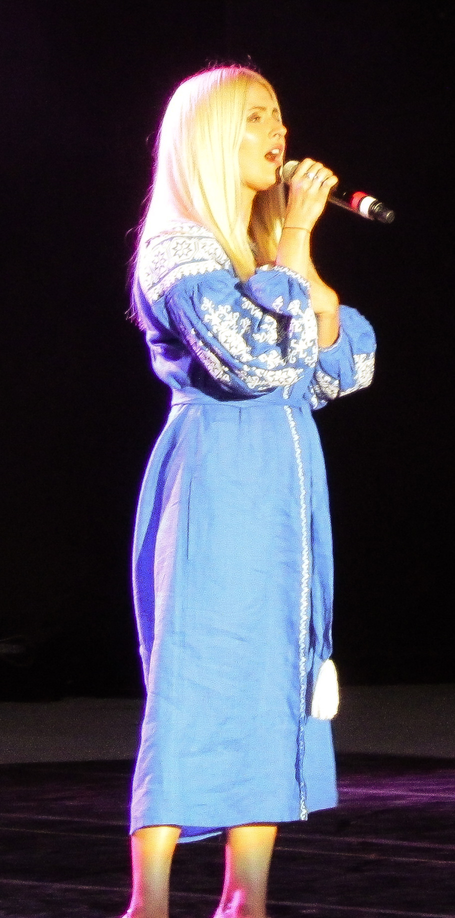 Myata at Canada's National Ukrainian Festival, Dauphin, Manitoba, August 2018.